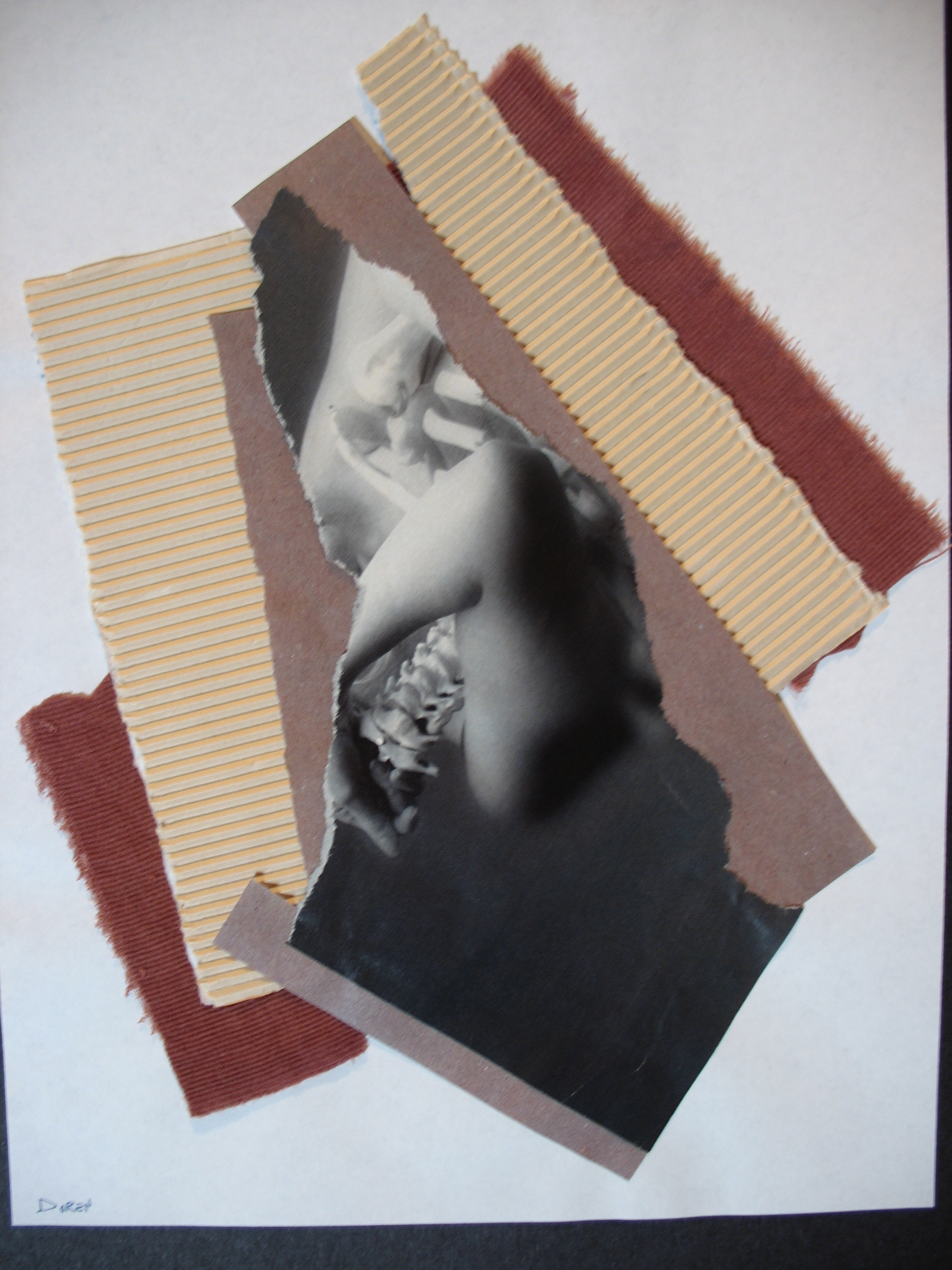 This is a mixed media art piece created by Doren Robbins, poet and essayist.